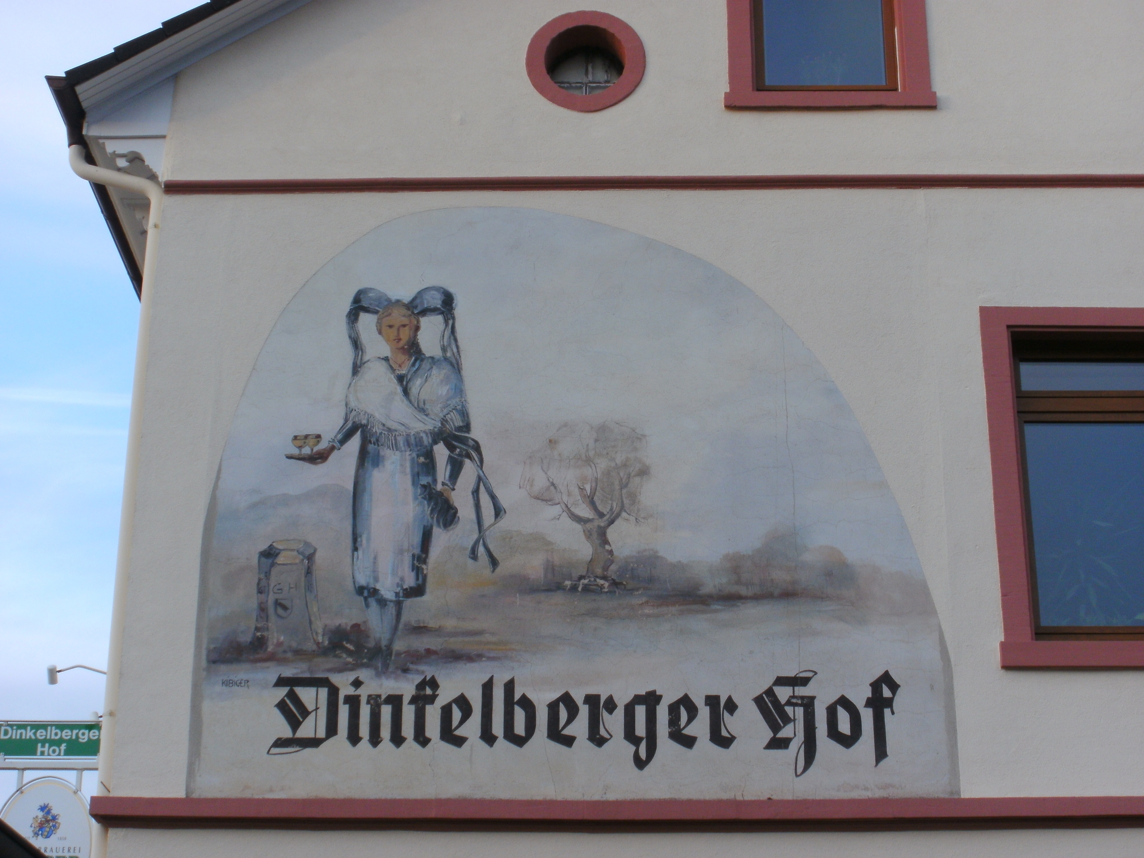 "Dinkelberger Hof", a rural inn in the village Adelhausen, part of Rheinfelden (Baden), Germany. The facade fresco by Julius Kibiger (1903-1983) shows a maiden in the traditional regional costume of the Markgräflerland.